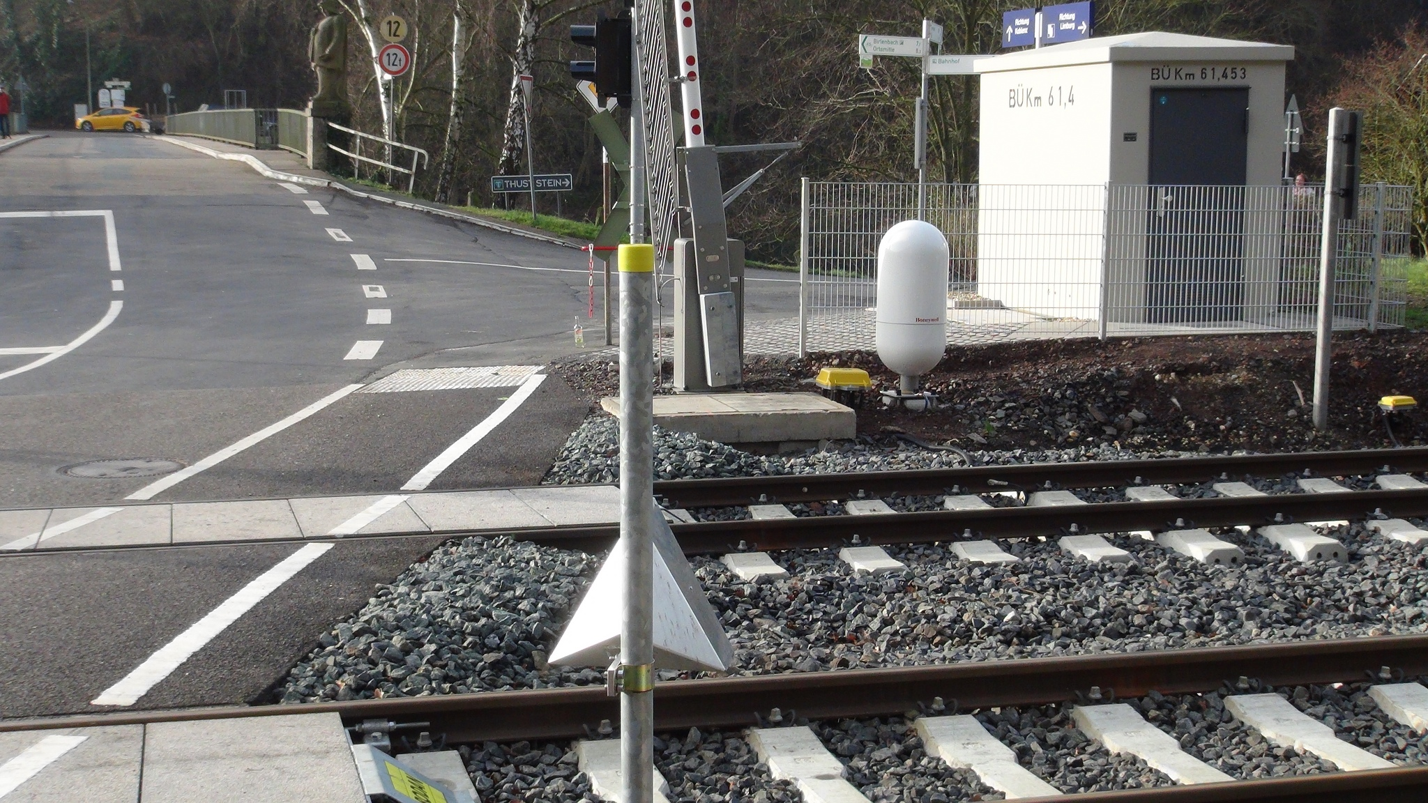 Radar scanner and triple reflector of a level crossing monitoring system